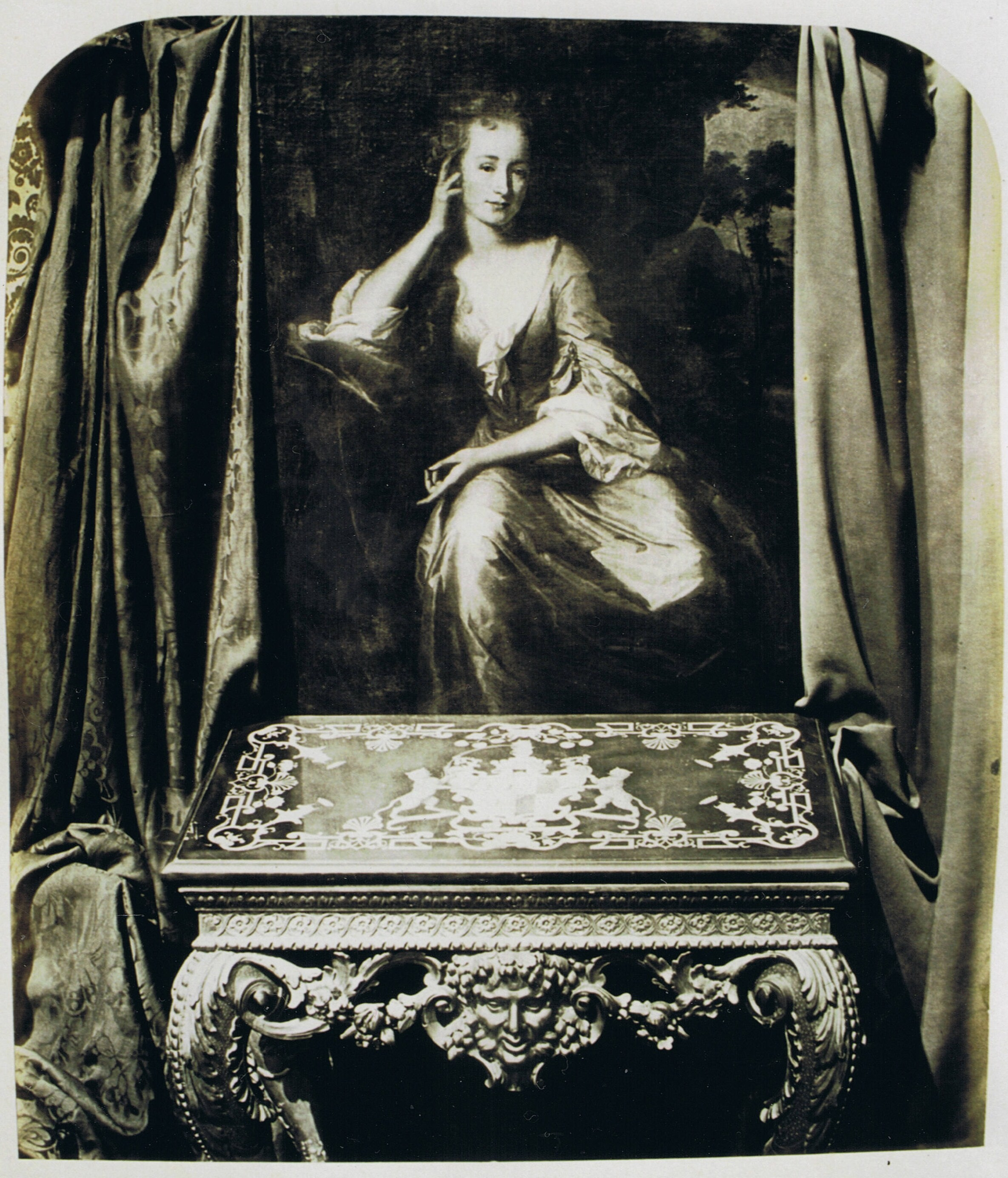 My scan of my photo (R. de Salis, Rodolph (talk) 22:53, 11 April 2014 (UTC)) of a Victorian photo of an oil-on-canvas portrait of Mary Stanhope, later Viscountess Fane, by G. Schalken, 1702, (prime version is at Chevening) and a Florentine topped scagliola table c1735 (one of a pair).